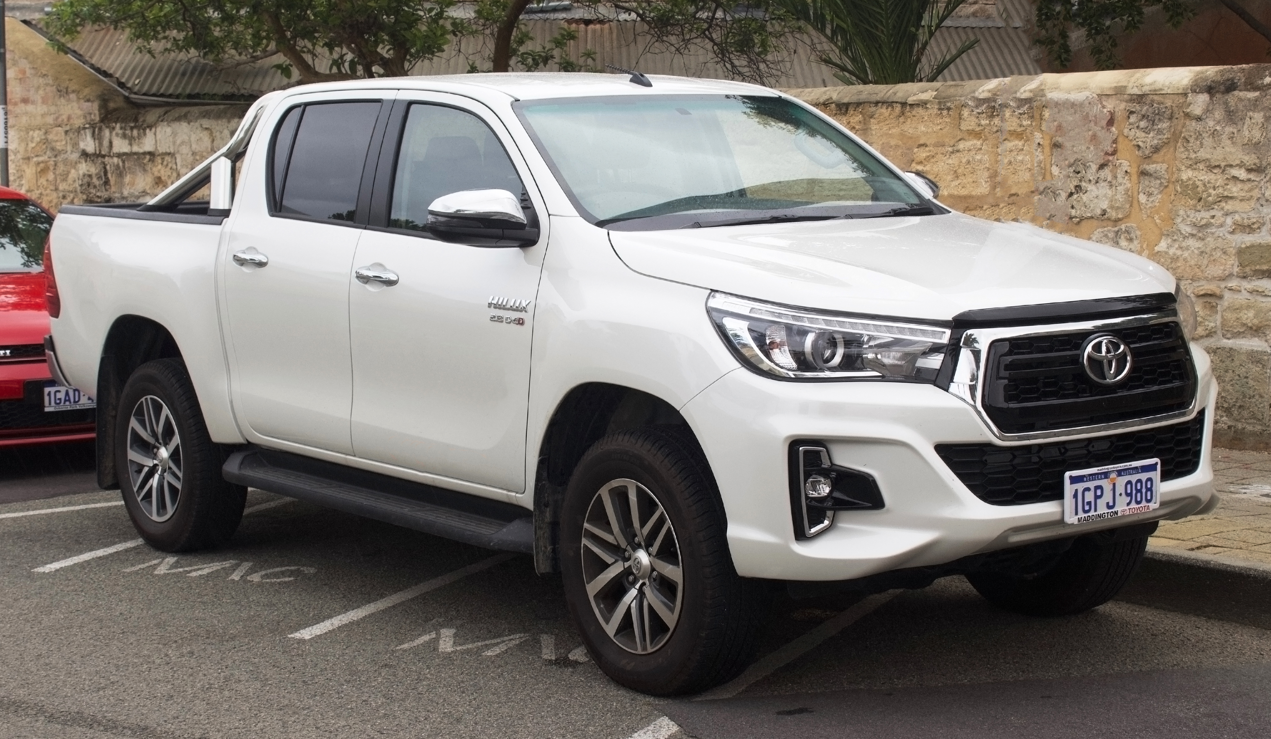 2018 Toyota HiLux (GUN126R MY19) SR5 4x4 Double Cab. Photographed in Fremantle, Western Australia, Australia.